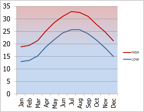 Average Temperature of Hsinchu, Taiwan. (Source: Weather Bureau of Taiwan, 1992-2010)